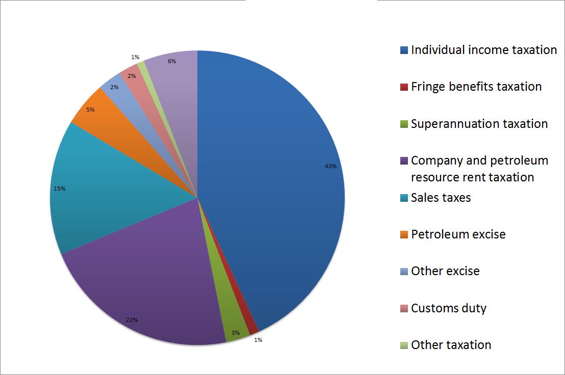 Pie graph representing the revenue of the Australian Government as reported by the 2011-2012 Federal Budget.